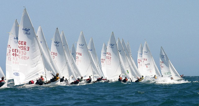 Left side start